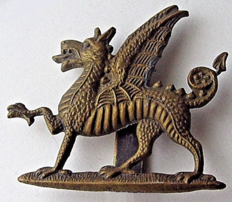 Cap badge of part-time unit of Briitsh Army